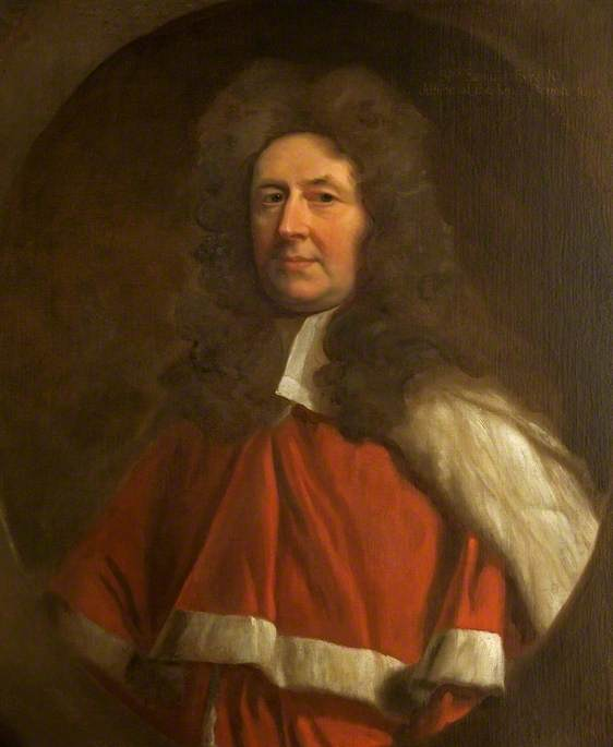 John Riley's painting of Sir Samuel Eyre (c.1638-1698), Justice of the King's Bench; Salisbury Guildhall; Maybeeee 1680???